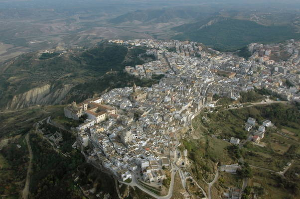 View of Montescaglioso